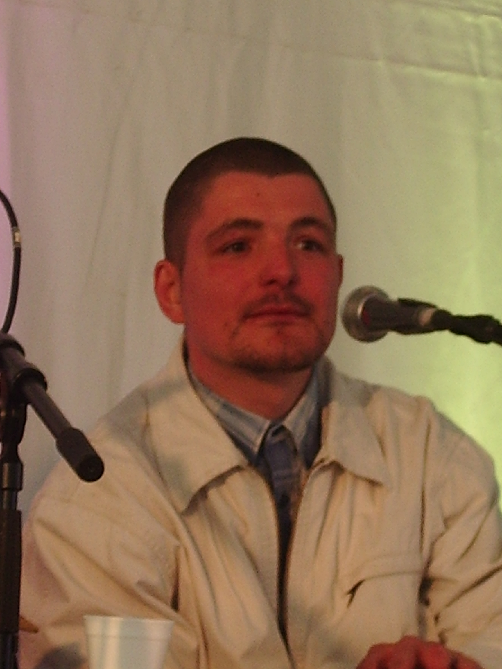 Ivar Sild (born 1977) is an Estonian poet. Performing in Tallinn Literature Festival 2009.